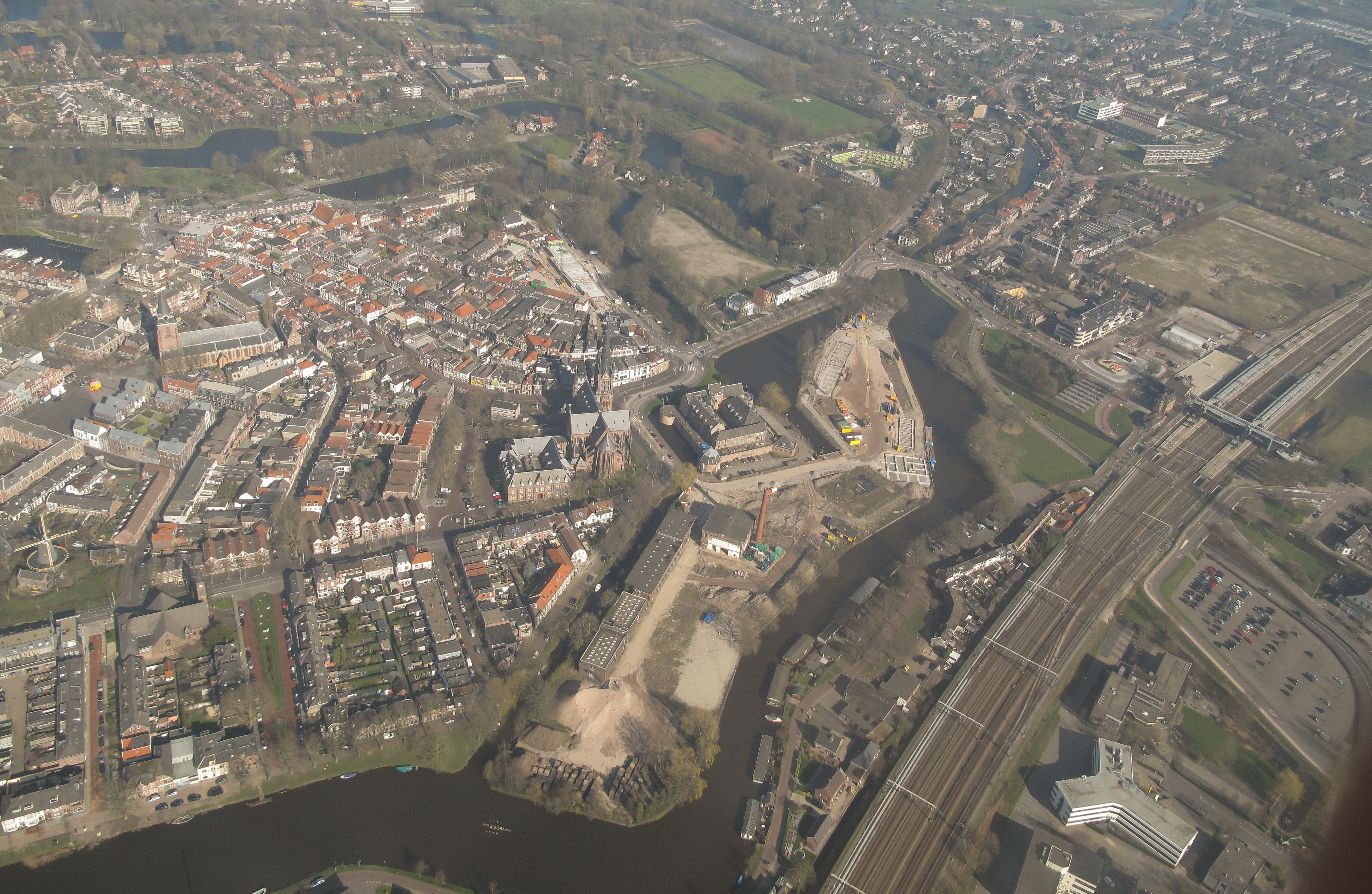 Woerden, town center from the sky